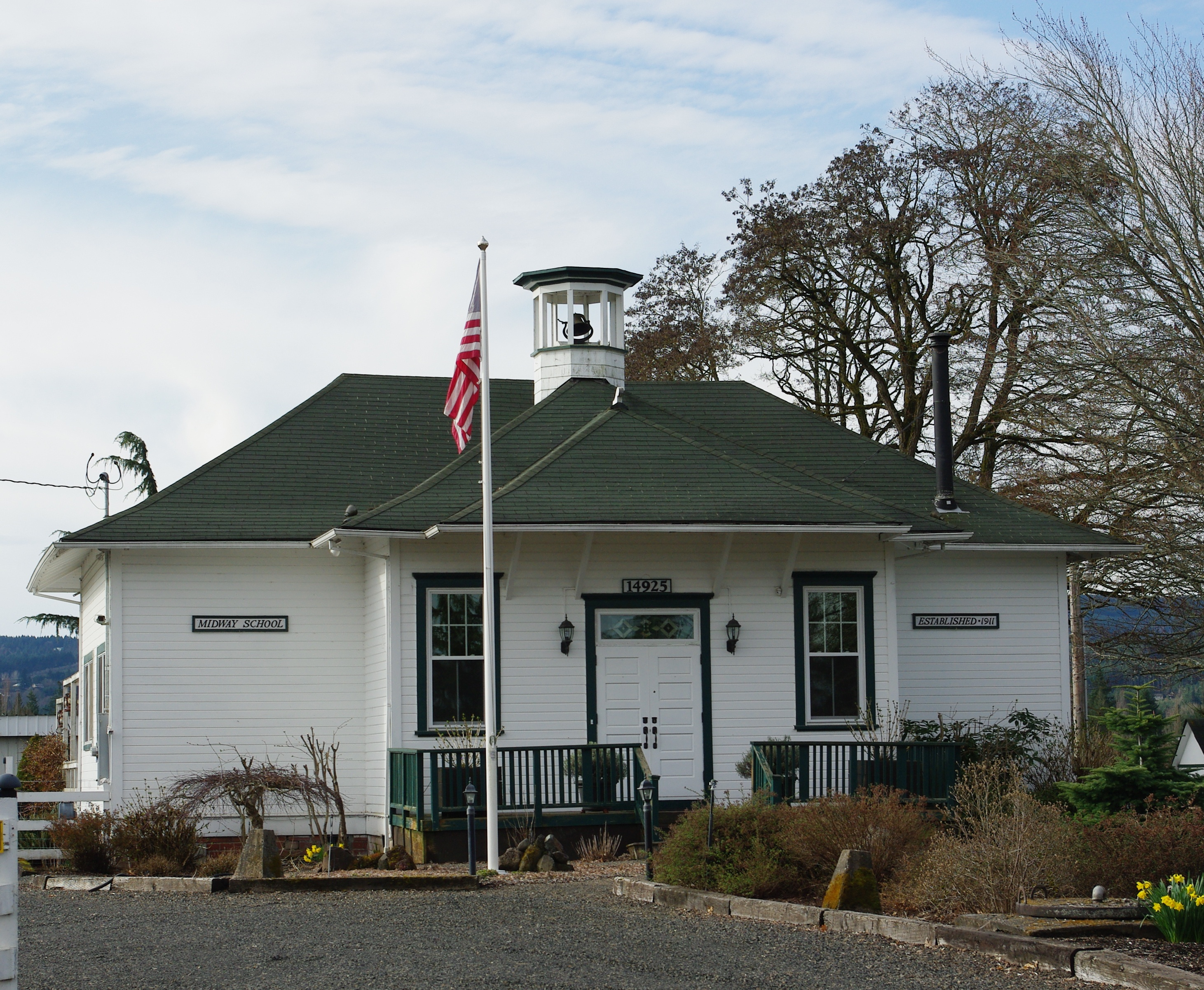 Former school at , that is now a private residence. School district eventually merged into the Hillsboro School Distric.